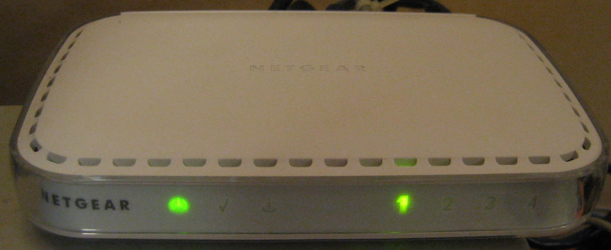 Netgear ADSL router